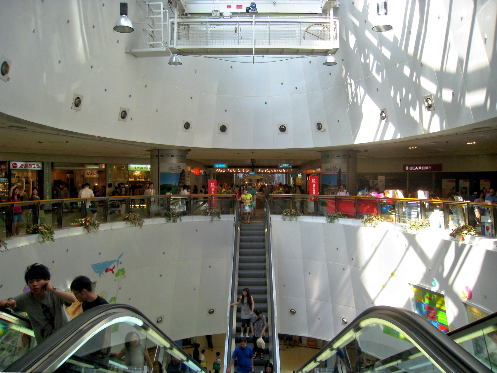 Metro City Phase 1 Atrium